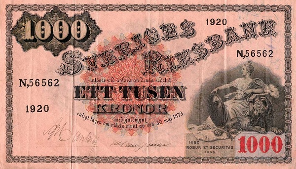 1000 svéd korona 1924 (előoldal)